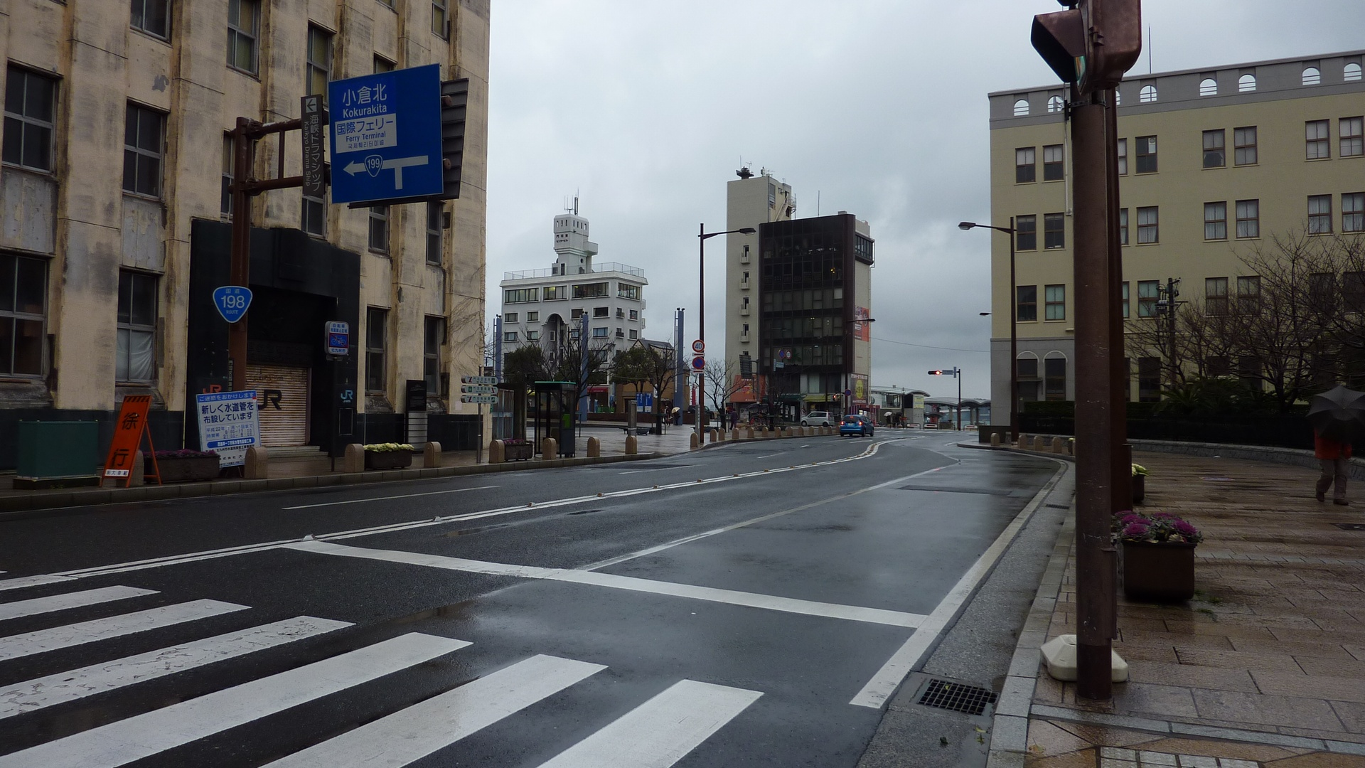 National Route 198 - Moji, Kitakyushu City, Fukuoka Prefecture, Japan.